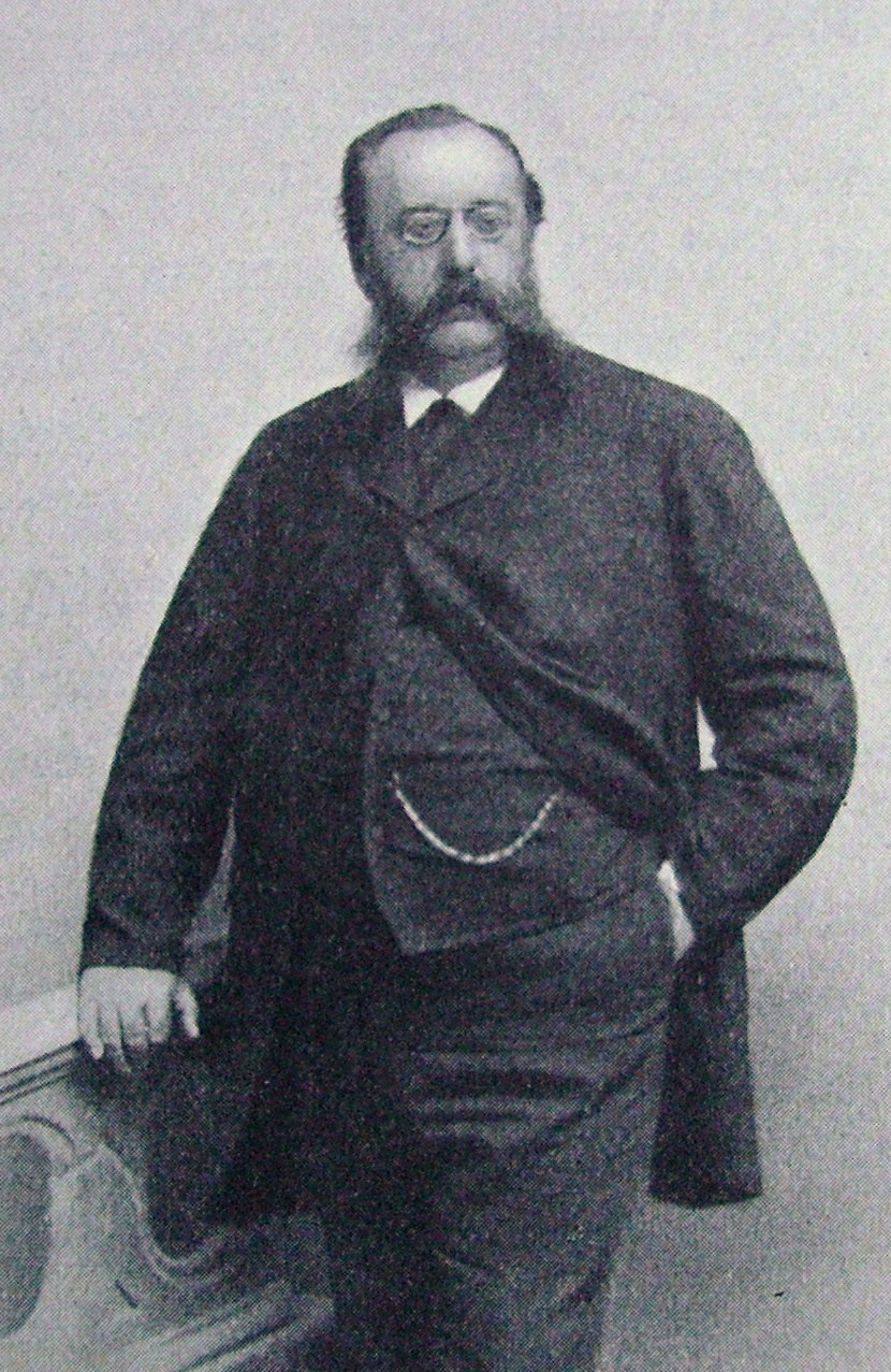 Picture of Gustaf Sparre, Swedish politician